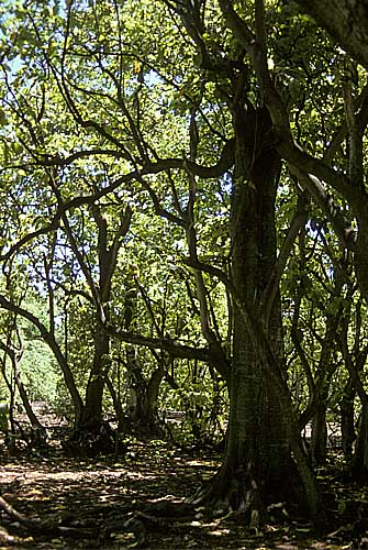 Vostok Island's interior forest is predominantly Pisonia trees (Pisonia grandis), Line Islands, Kiribati.